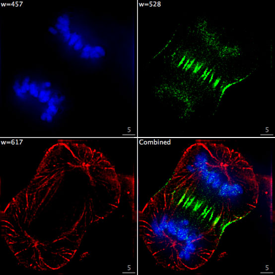 Dividing Cell Fluorescence ; An image of a Human cancer cell dividing. Taken with an epifluorescence microscope. The cell is fixed and stained with DAPI (Stains DNA blue), GFP-INCENP (green), Tubulin (red).